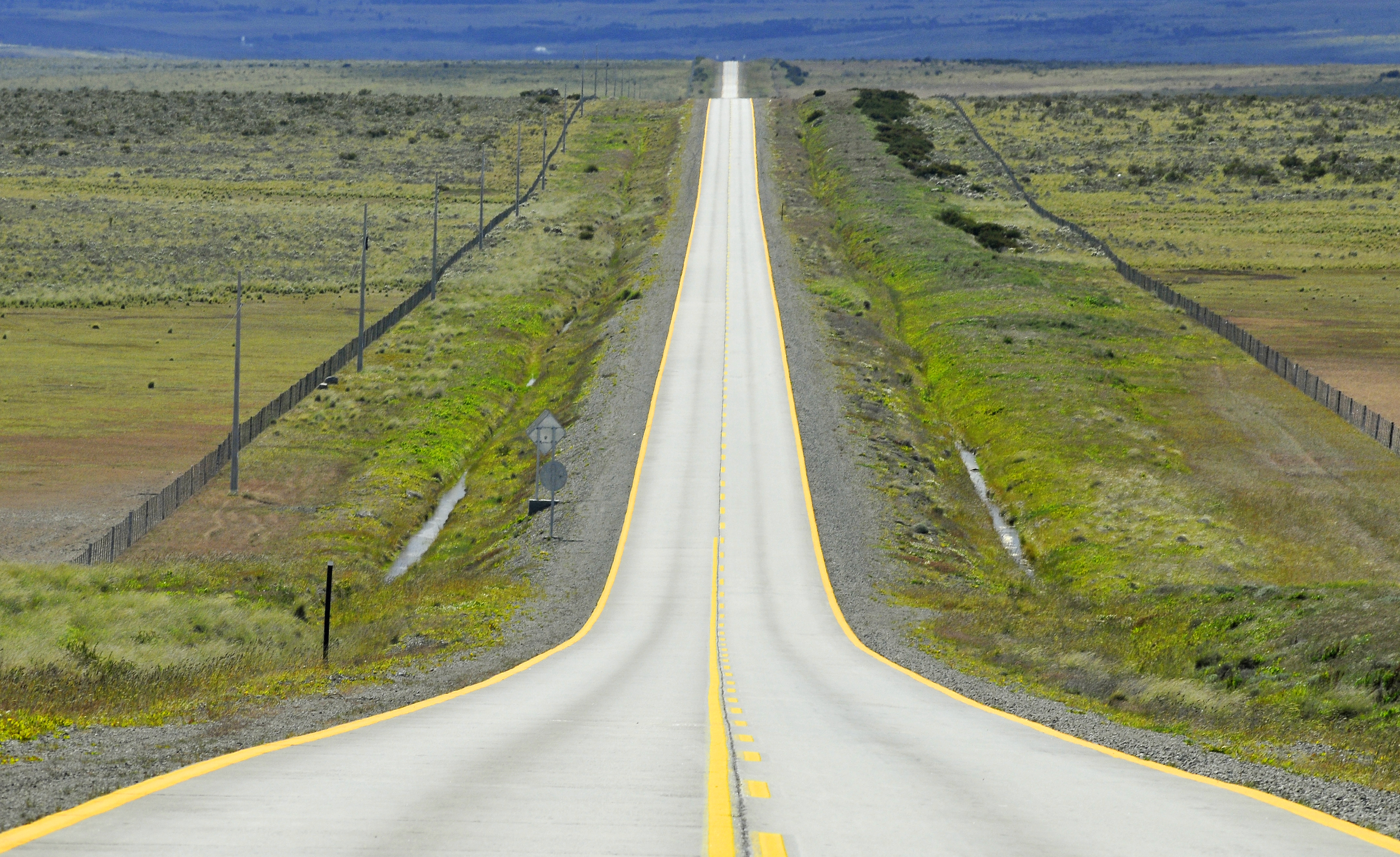 Route 9. Magallanes, Chile